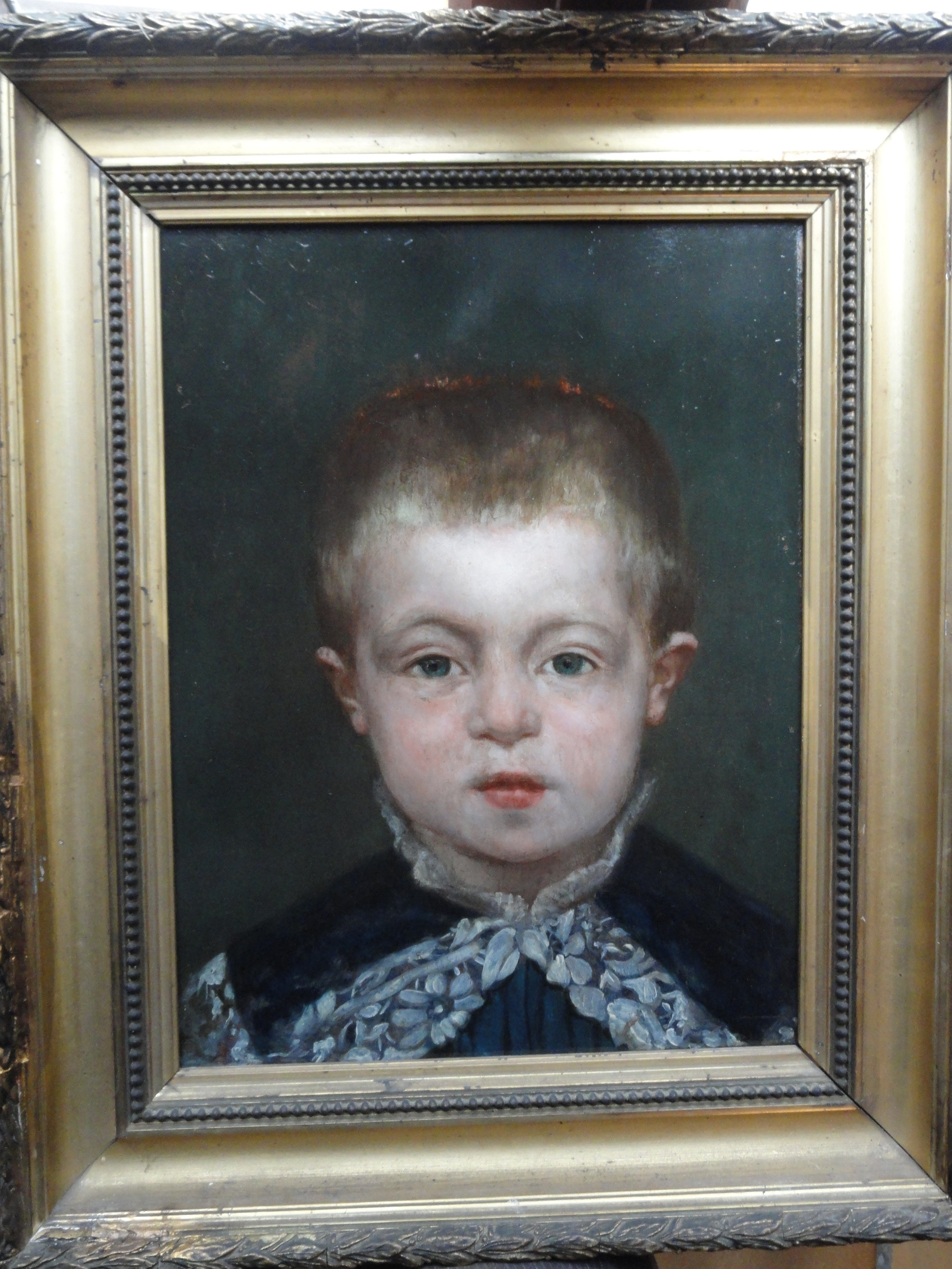 Portrait de son fils Jean par Gabriel Martin